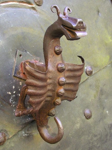 Summary by Jurbox